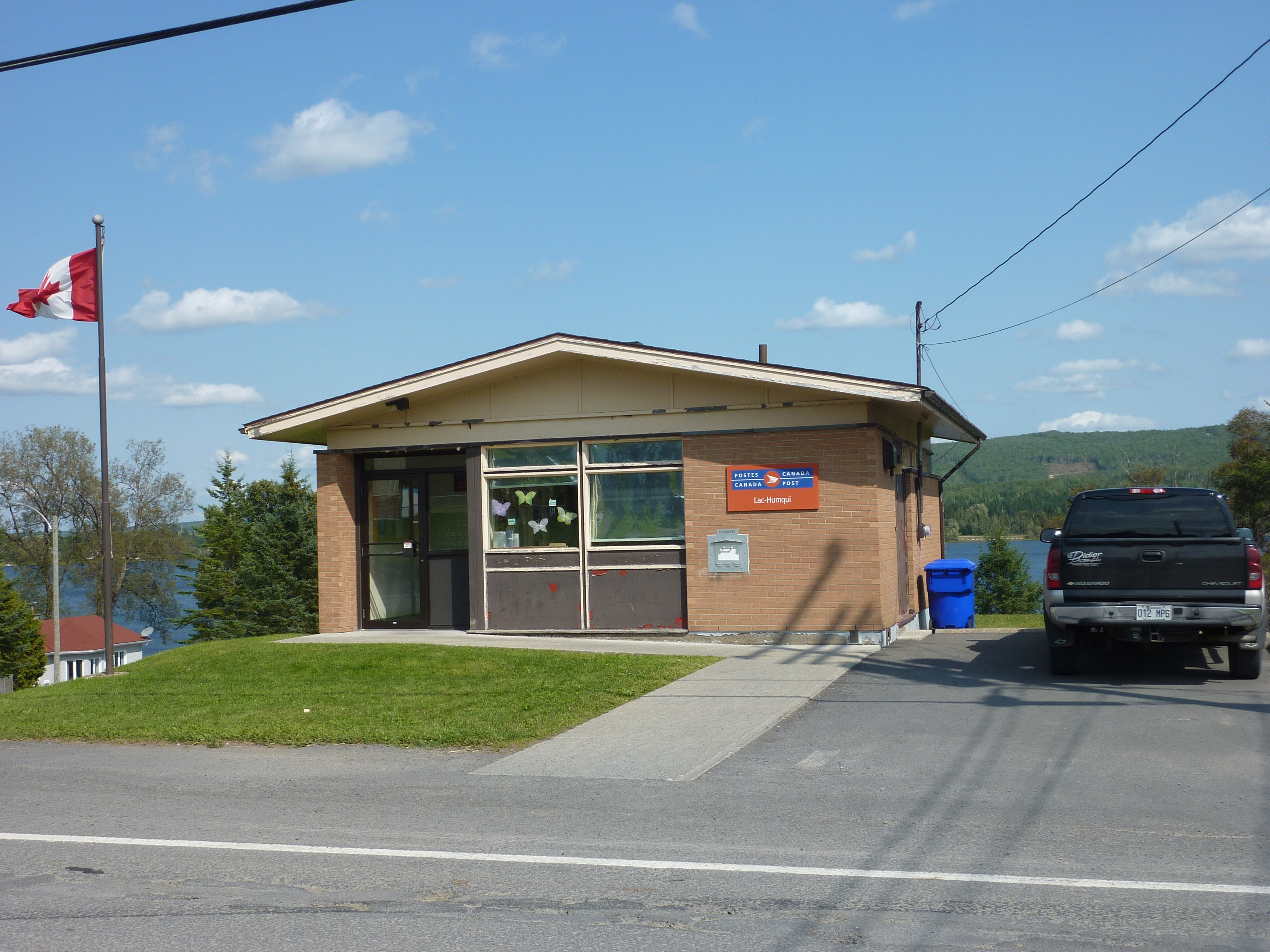 Post office of Saint-Zénon-du-Lac-Humqui, Qc